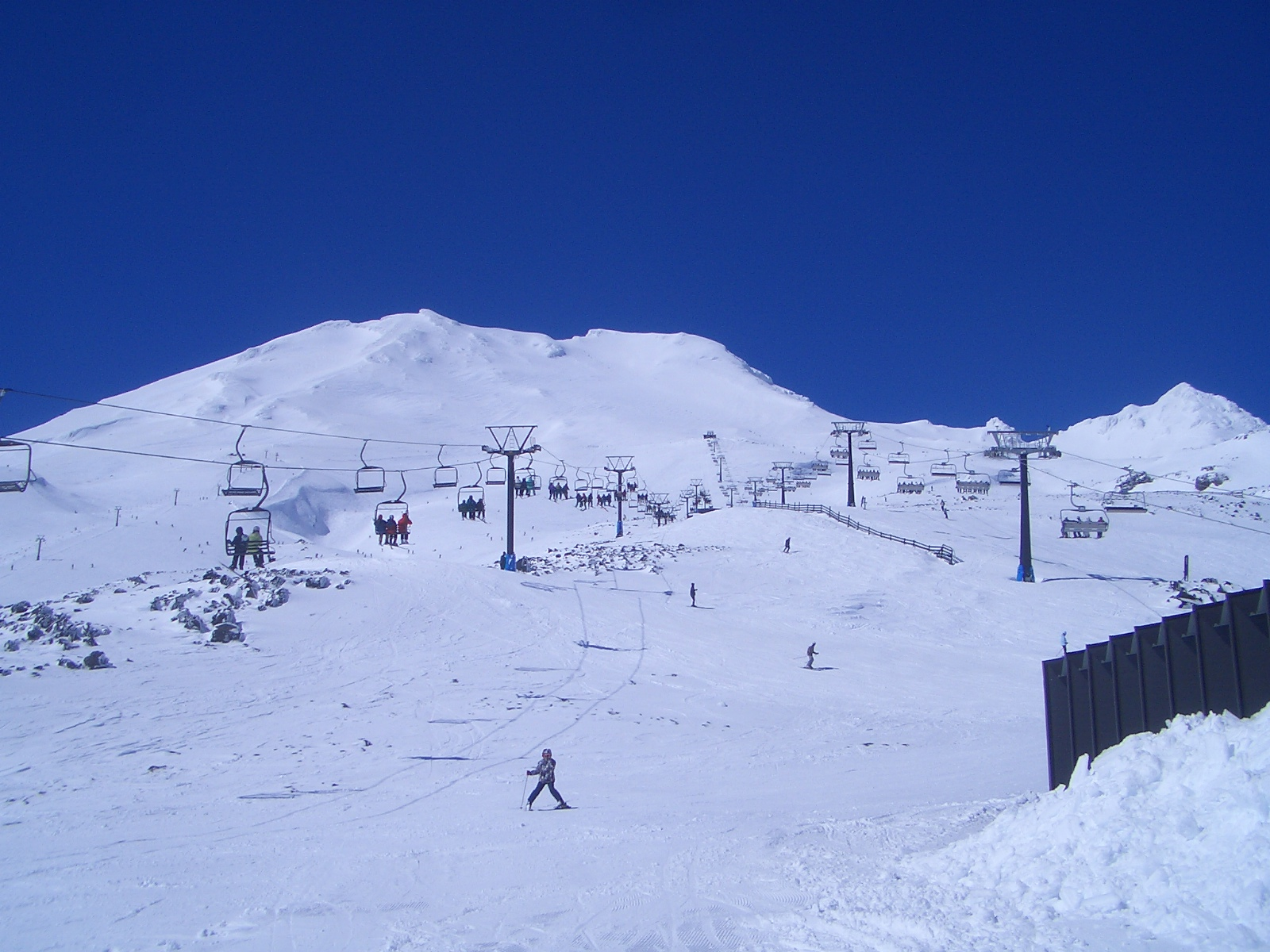 View of the Turoa ski field